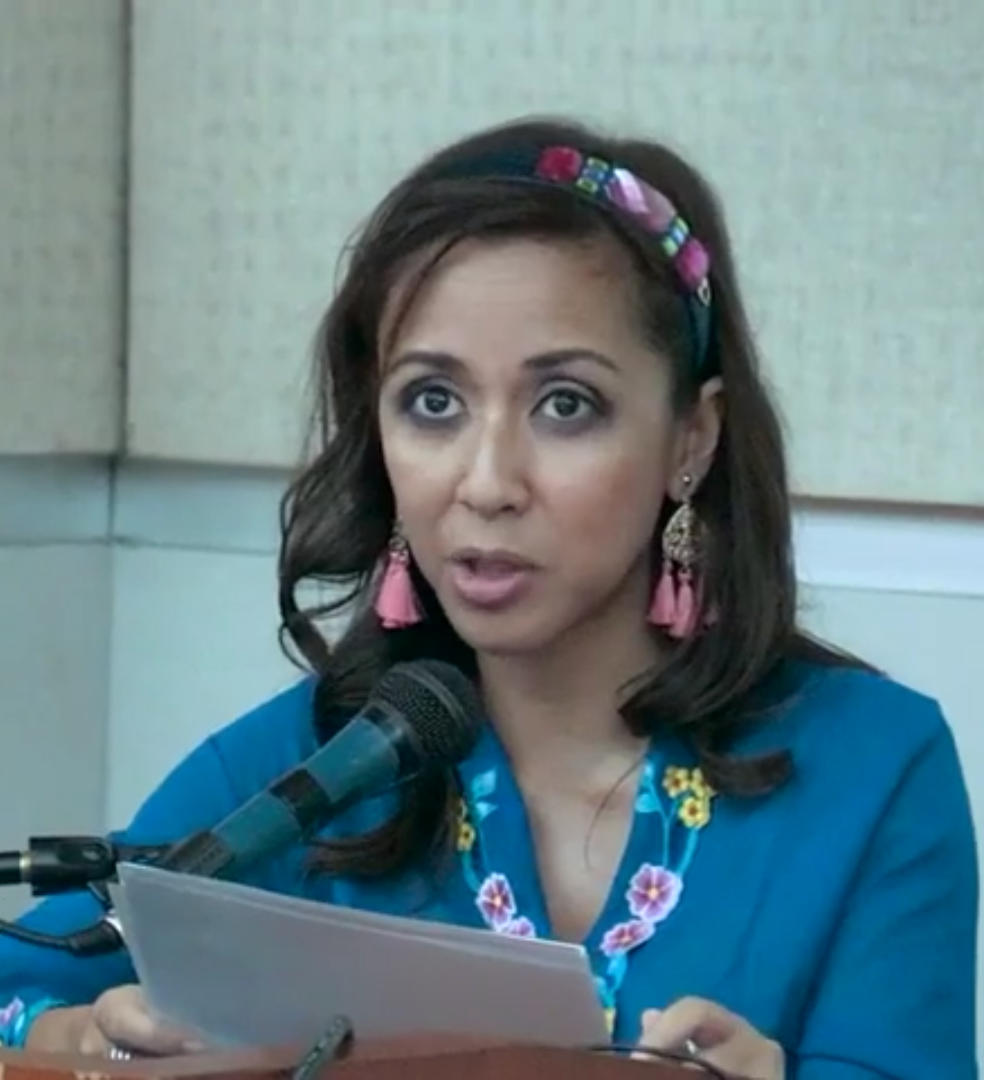 Picture of Tengku Zatashah binti Sultan Sharafuddin Idris Shah